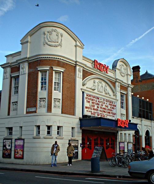 Ritzy Cinema in Brixton, taken by C Ford March 04.